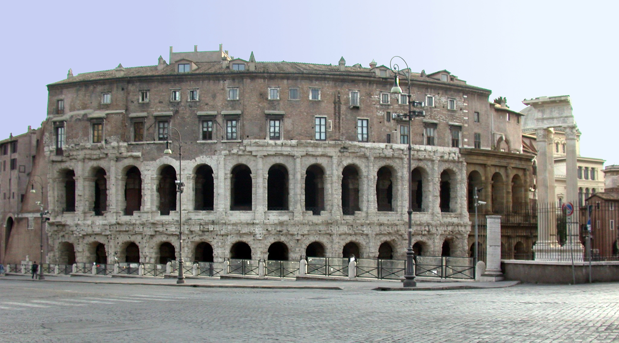 Theatre of Marcellus